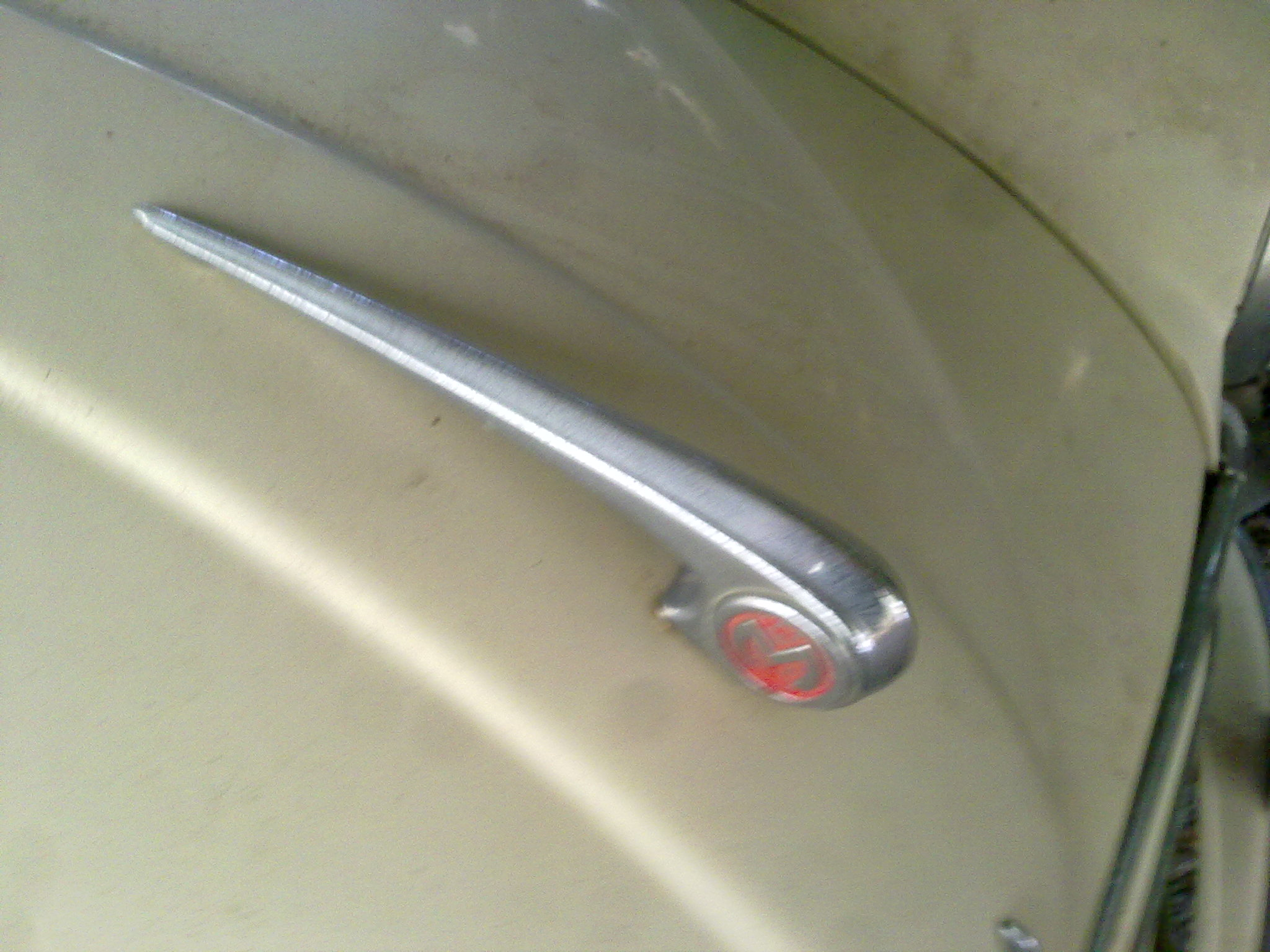 A morris minor badge, Nicosia